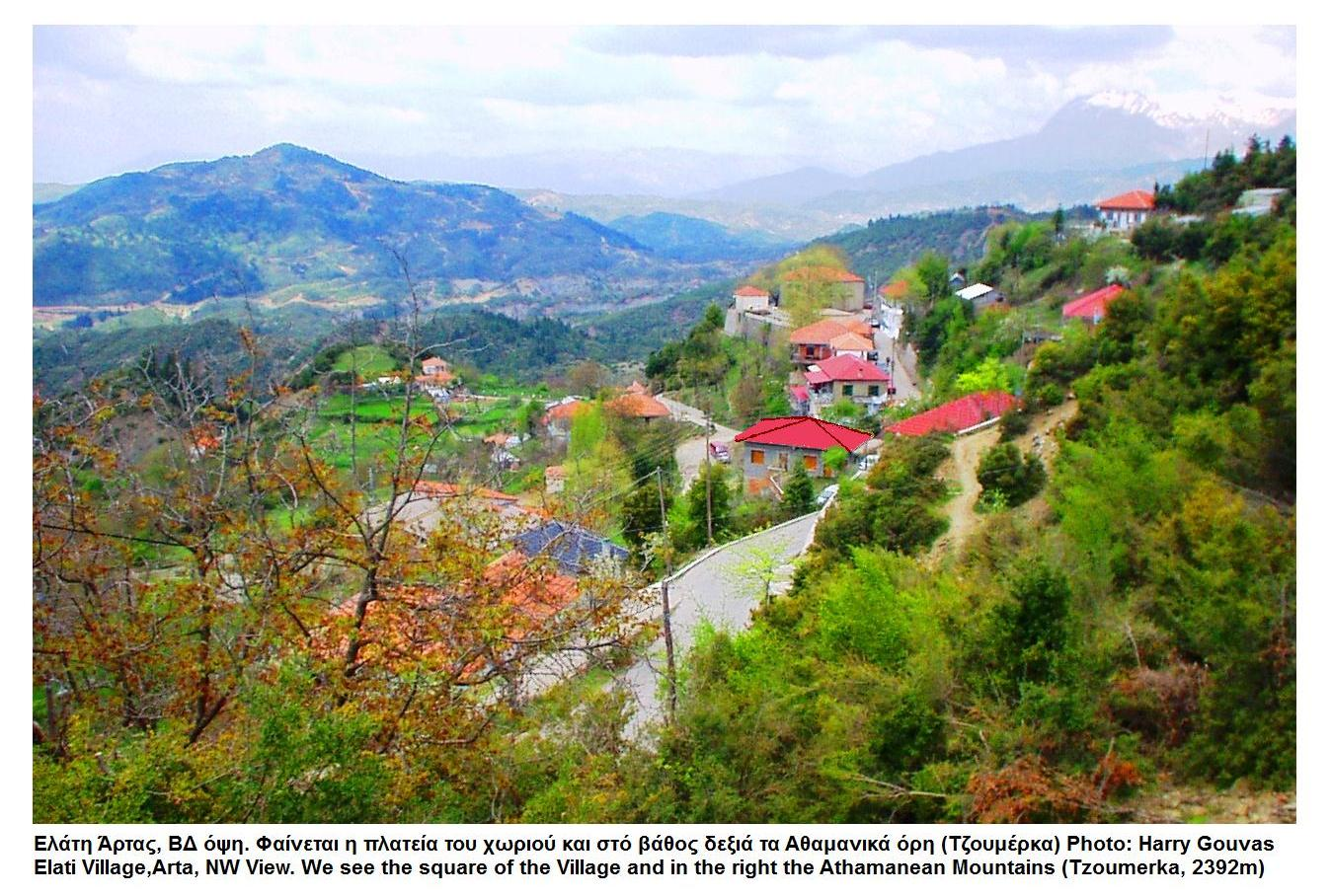 Elati, Arta, Greece